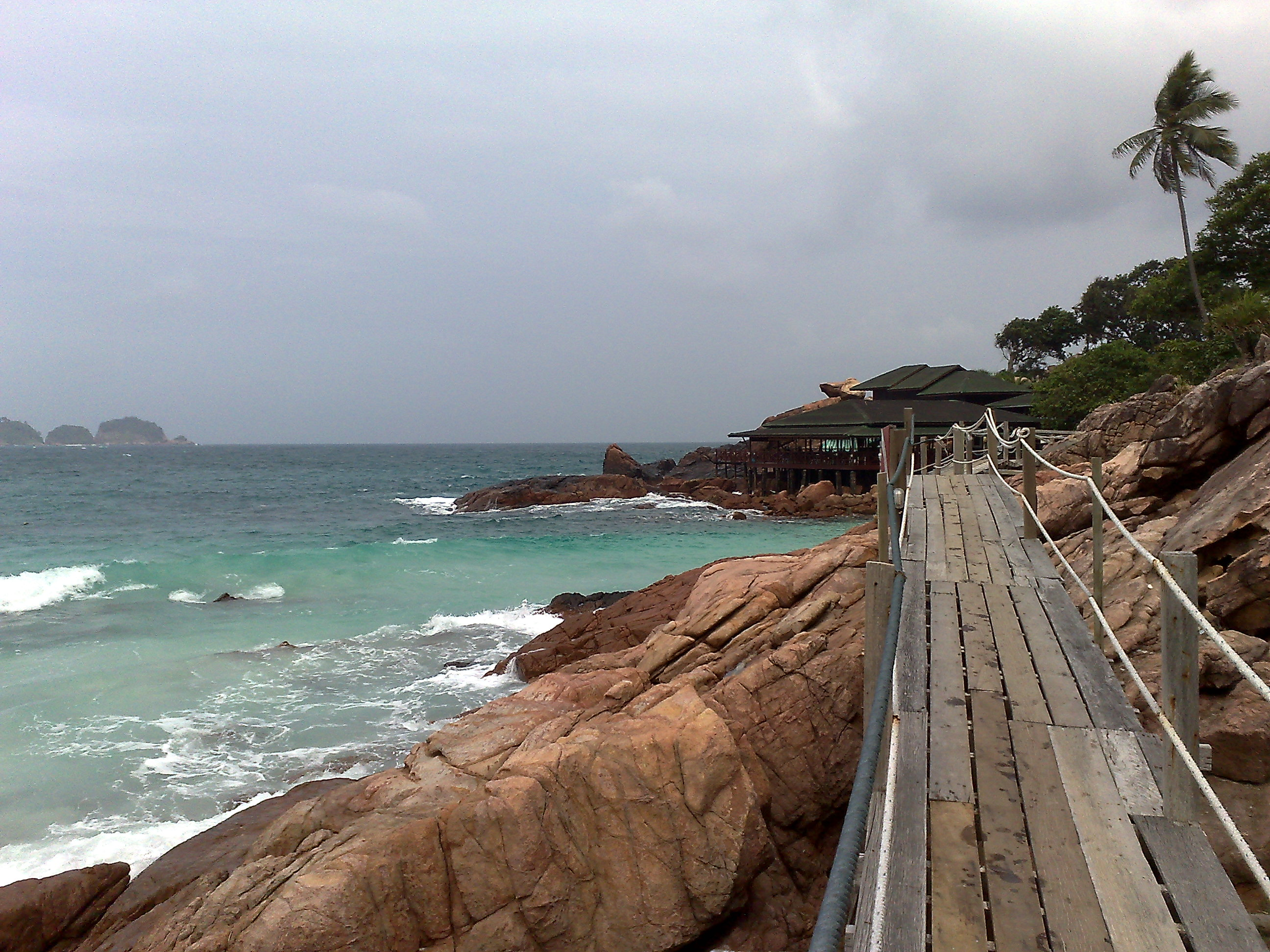 Laguna Redang Beach, Redang Island - Malaysia